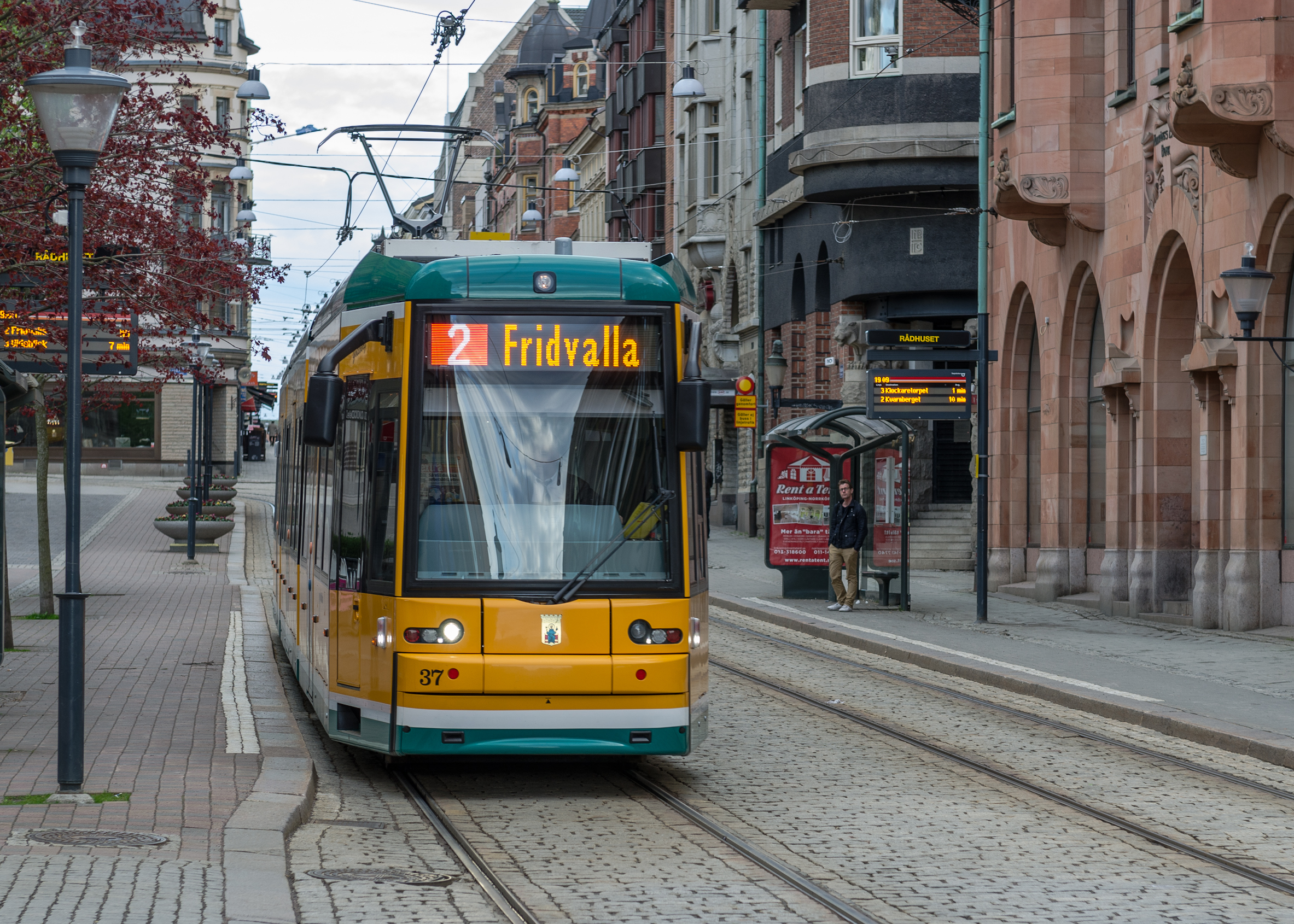 Tram at Drottninggatan, Norrköping (Sweden).